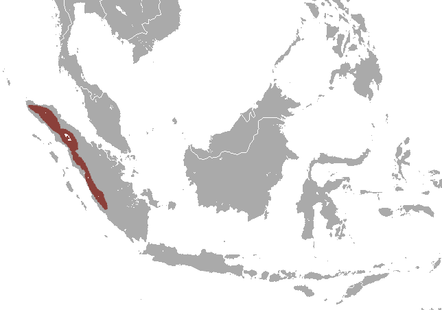 Beccari's Shrew (Crocidura beccarii) range